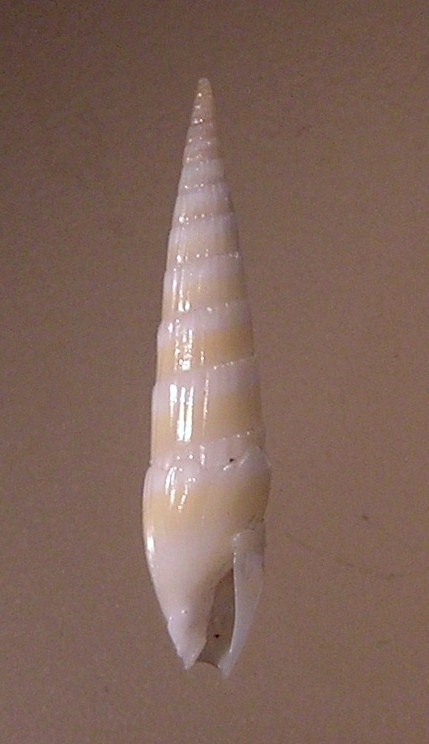 Hastula alboflava Bratcher, 1988 ,an auger snail from the family Terebridae; Philippines